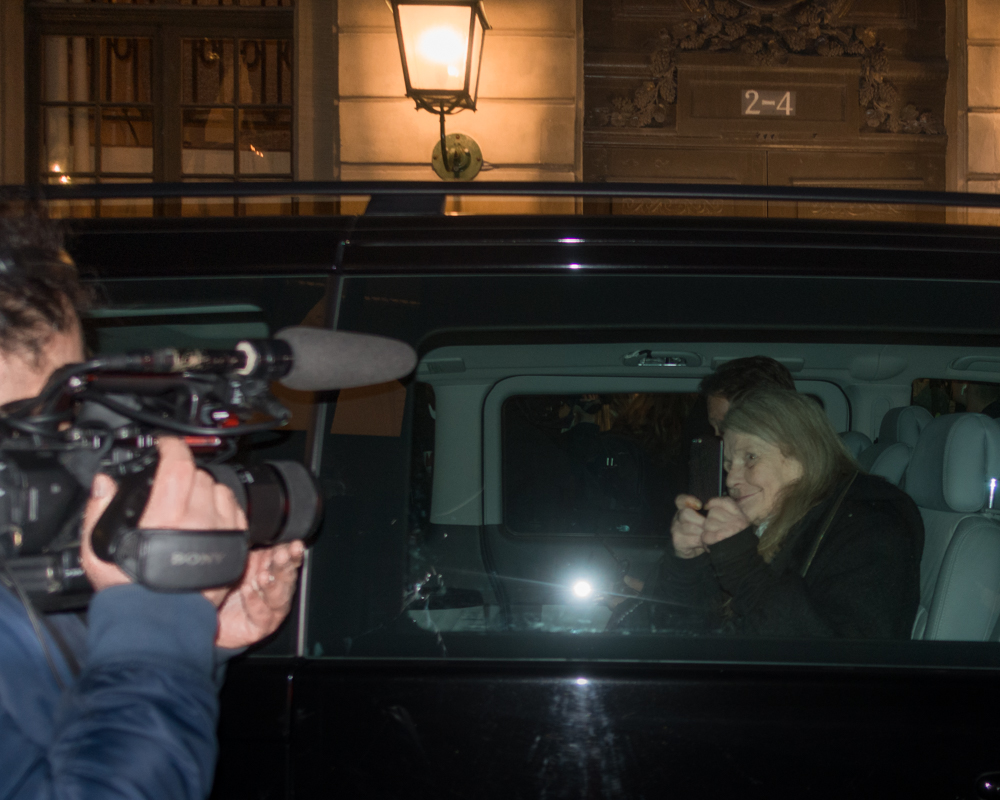 Kristina Lugn photographs the journalists gathered outside the Swedish Academy in Stockholm during the Academy's tumultuous days in spring 2018.